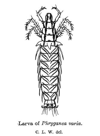 Phryganea varia, Caddisfly, Trichoptera, larva